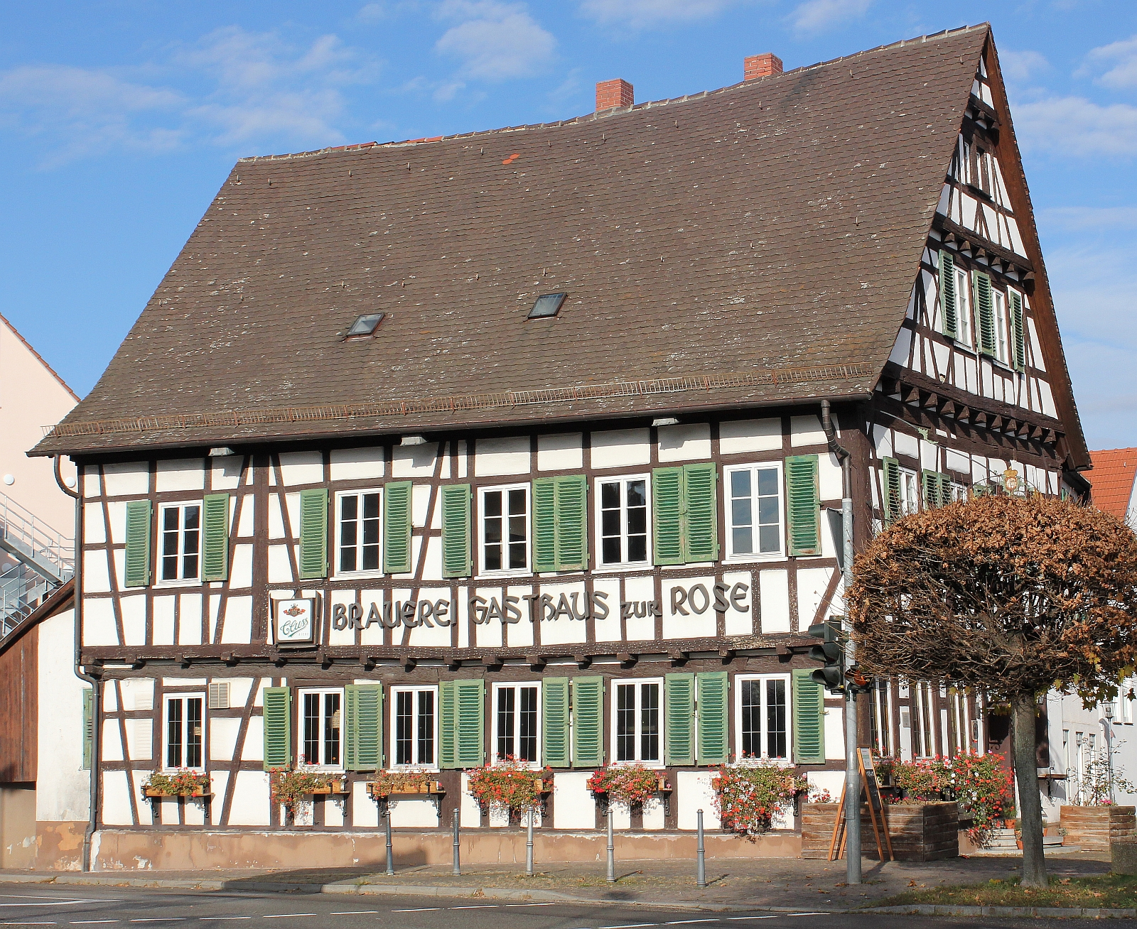 Public house "Zur Rose" in Grossbottwar